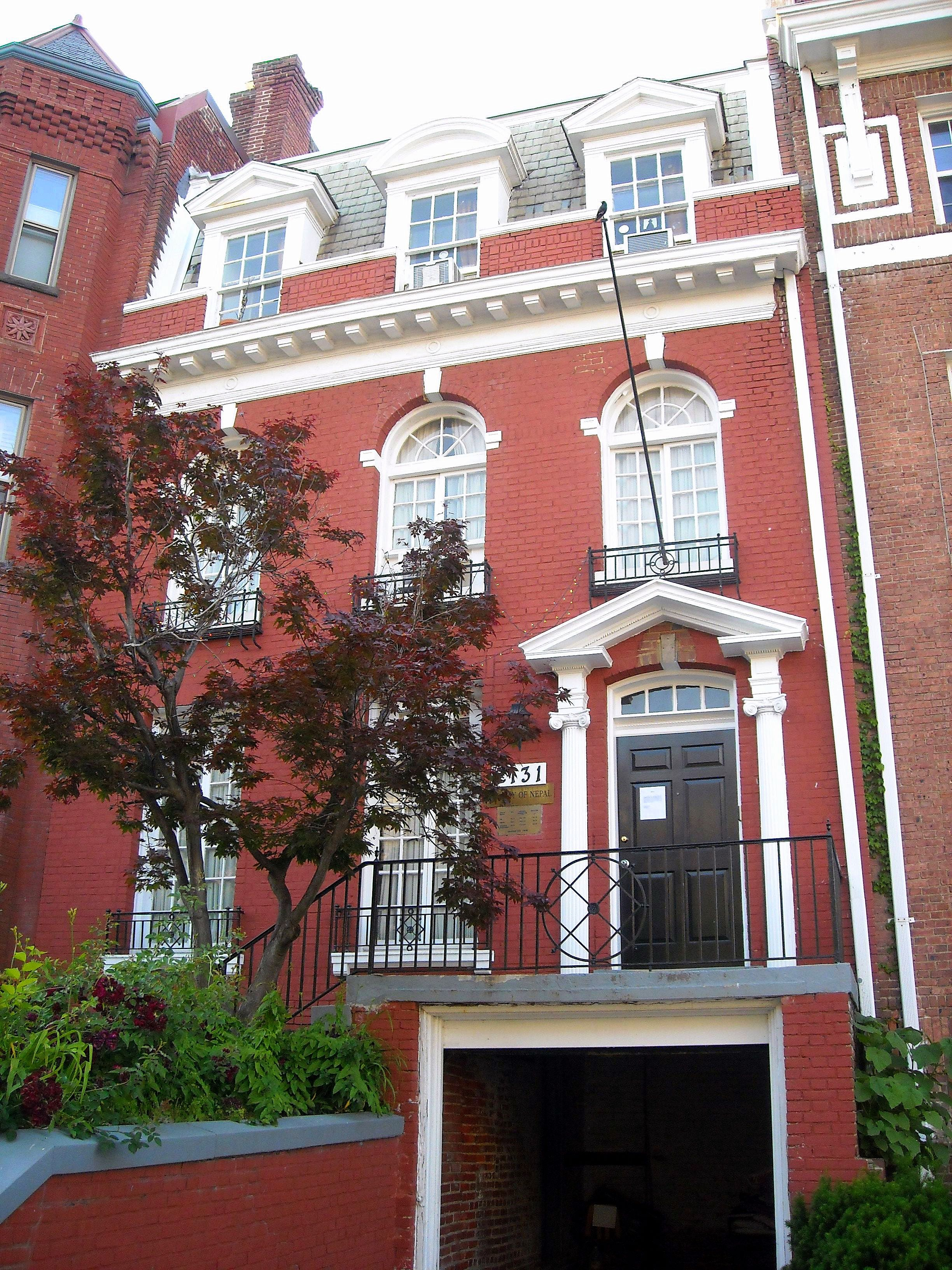 The Embassy of Nepal — at 2131 Leroy Place, N.W., in the Sheridan-Kalorama neighborhood of Washington, D.C. A contributing property to the Sheridan-Kalorama Historic District, and listed on the National Register of Historic Places in Washington, D.C.